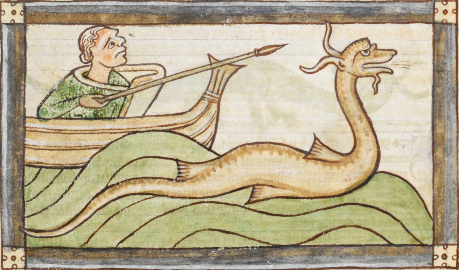 Hydrus - Bestiary Harley MS 3244, ff 36r-71v